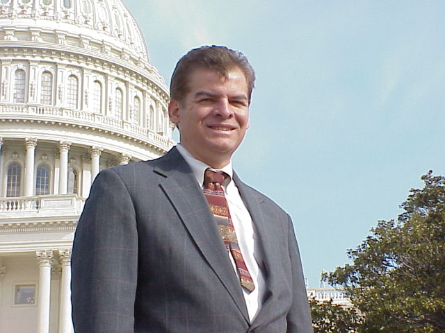 This is a publicity photo of Gary Reams that I took in 2001 during his campaign for Virginia Lt. Governor.